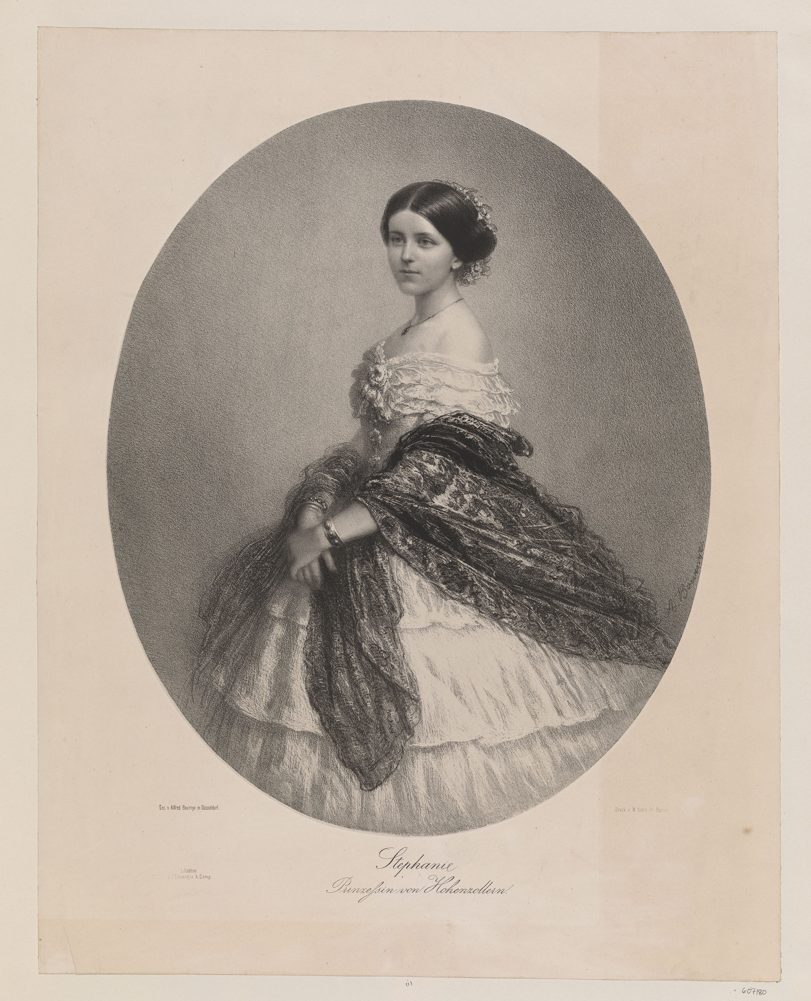 Queen Stephanie of Portugal by Bournye, Alfred (19th century lithographer)